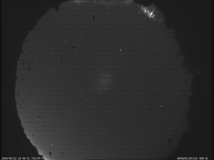 Sprites (Transient luminous event) or upper atmospheric lightnings are special and rare phenomena. As observed by all sky video meteor station at the Modra observatory (upper right corner, above dark horizon).